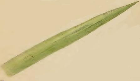 Stainton’s Natural History of the Tineina (1855–1873): Elachista poae mined leaf blade of Glyceria maxima